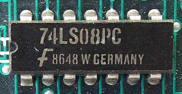 Fairchild Semiconductor 74LS08PC IC. It is a 7408-series AND gate.